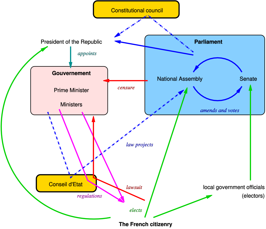 The main processes of the government of France (justice system mostly excluded) (This is a rendering by Inkscape of a SVG vector image: the MediaWiki renderer used on the site does not render it properly due to a bug.) Compare